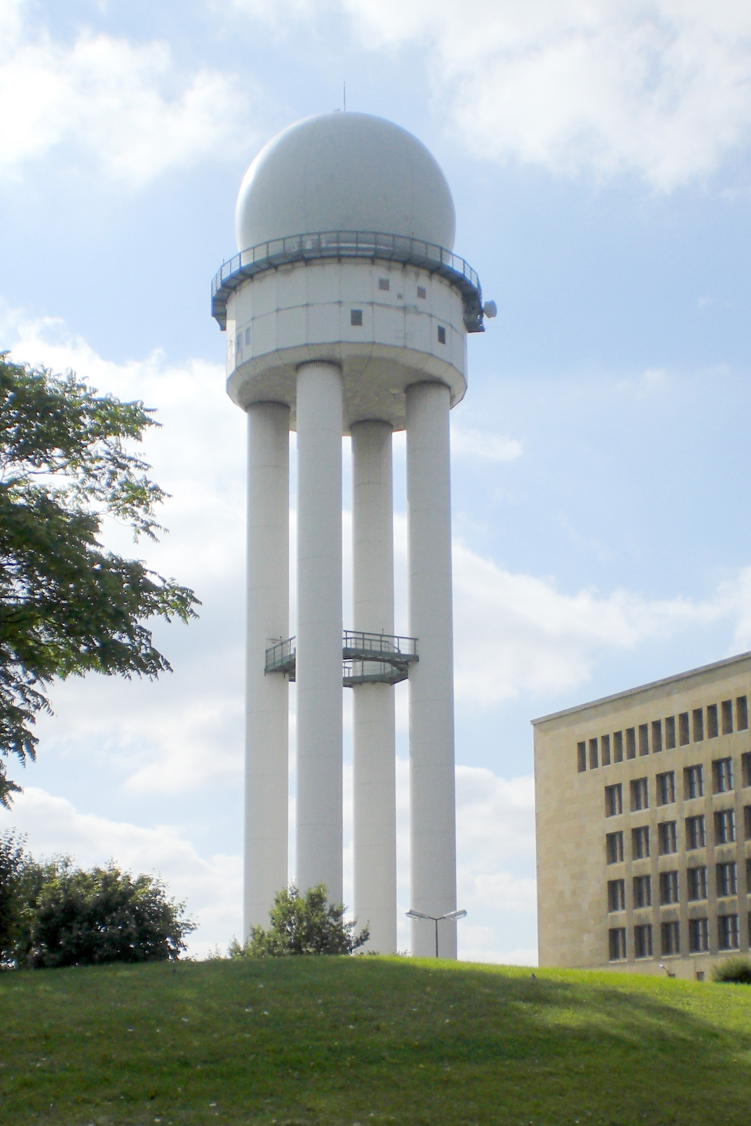 Radar tower of the Remote Technical Platoon 133 in Berlin Tempelhof (Tactical Air Command and Control Service of the German Air Force). The Radome accommodates a RRP 117 sensor.